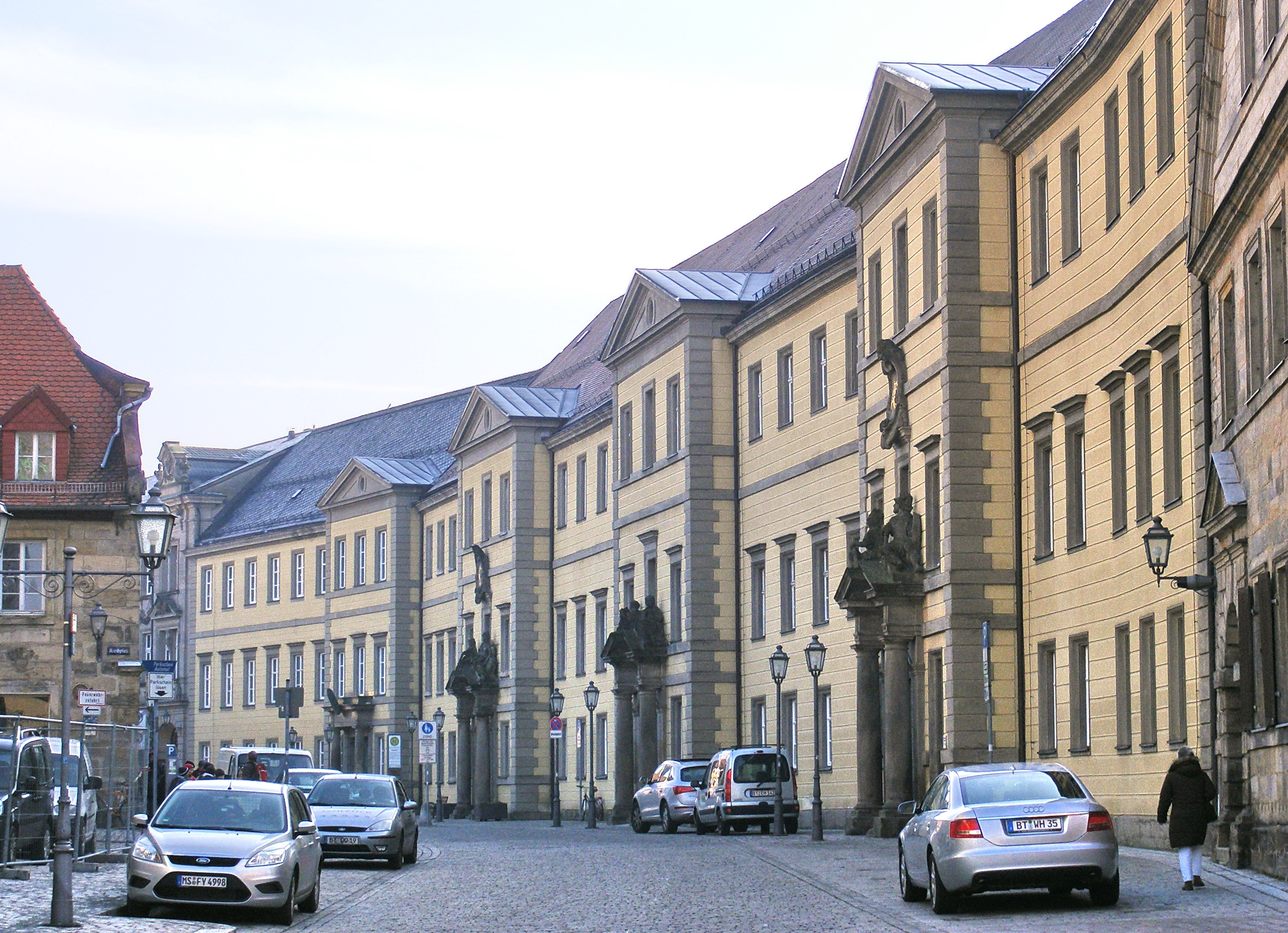 Bayreuth, Government of Upper Franconia, building line, Kanzleistraße